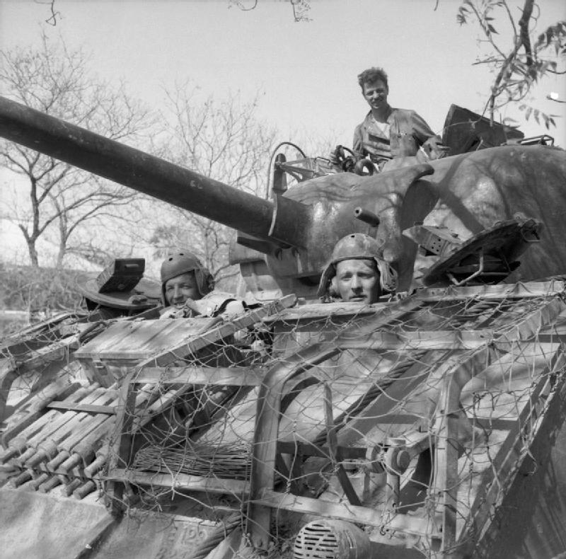 The British Army in Burma 1945 Crew members of 'Cairngorm', a Sherman tank of 116th Regiment, Royal Armoured Corps, between Taungtha and Meiktila, 15 March 1945.